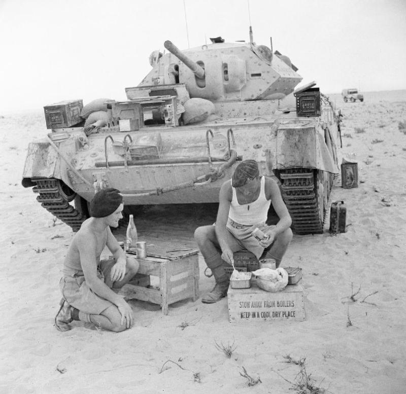 IWM caption : THE BRITISH ARMY IN NORTH AFRICA 1942. The crew of a Crusader tank prepare a meal in the Western Desert.